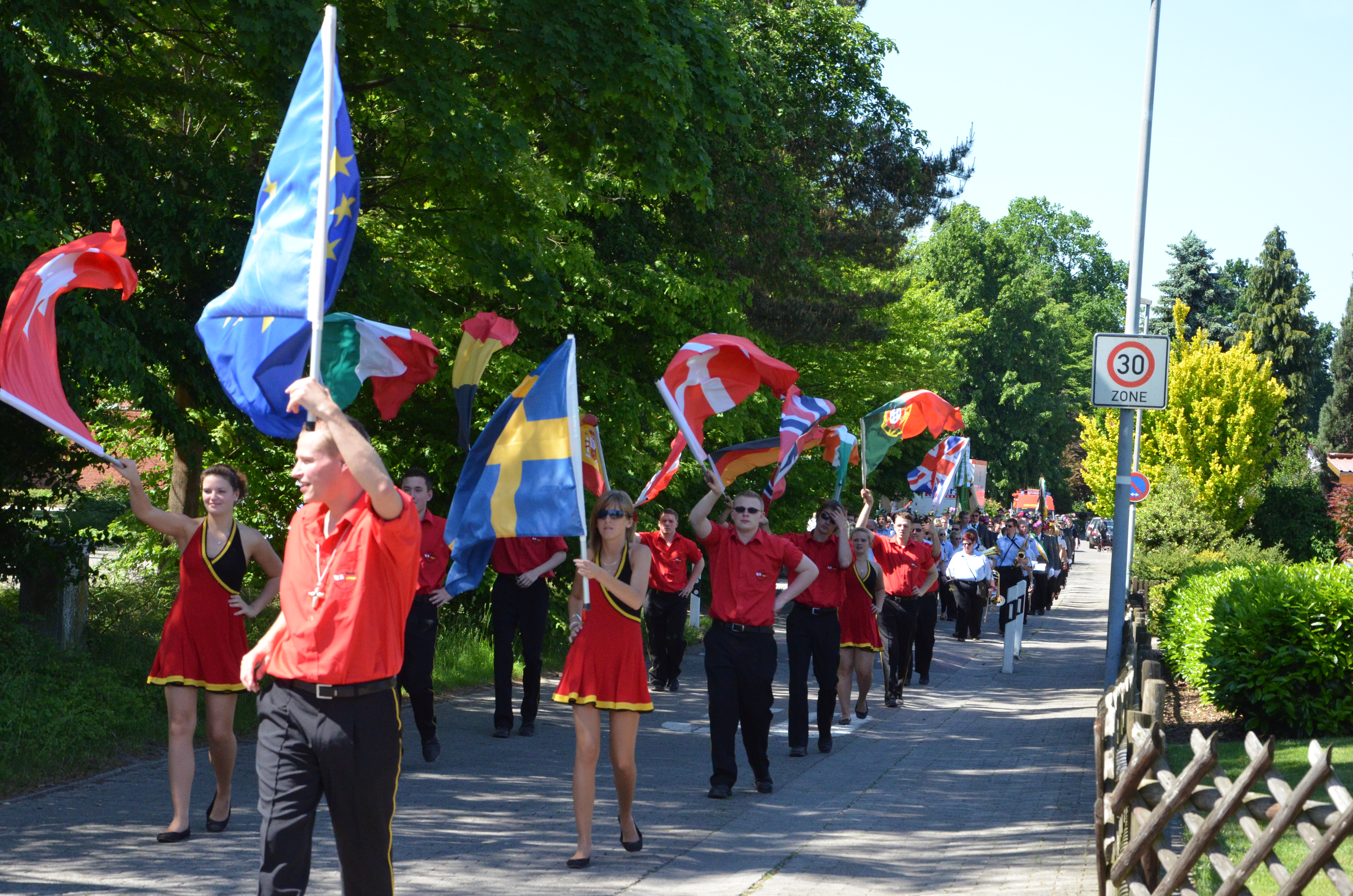 Flag swinging